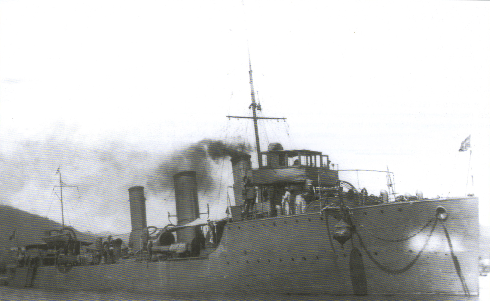 Italien Destroyer Impetuoso launched 23 July 1913; sunk 10 July 1916 by Austro-Hungarian U-boat U-17